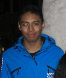 Abel Tesfamariam, Alpine skier who competed for the Philippines at the 2012 Youth Winter Olympics in Innsbruck, Austria.